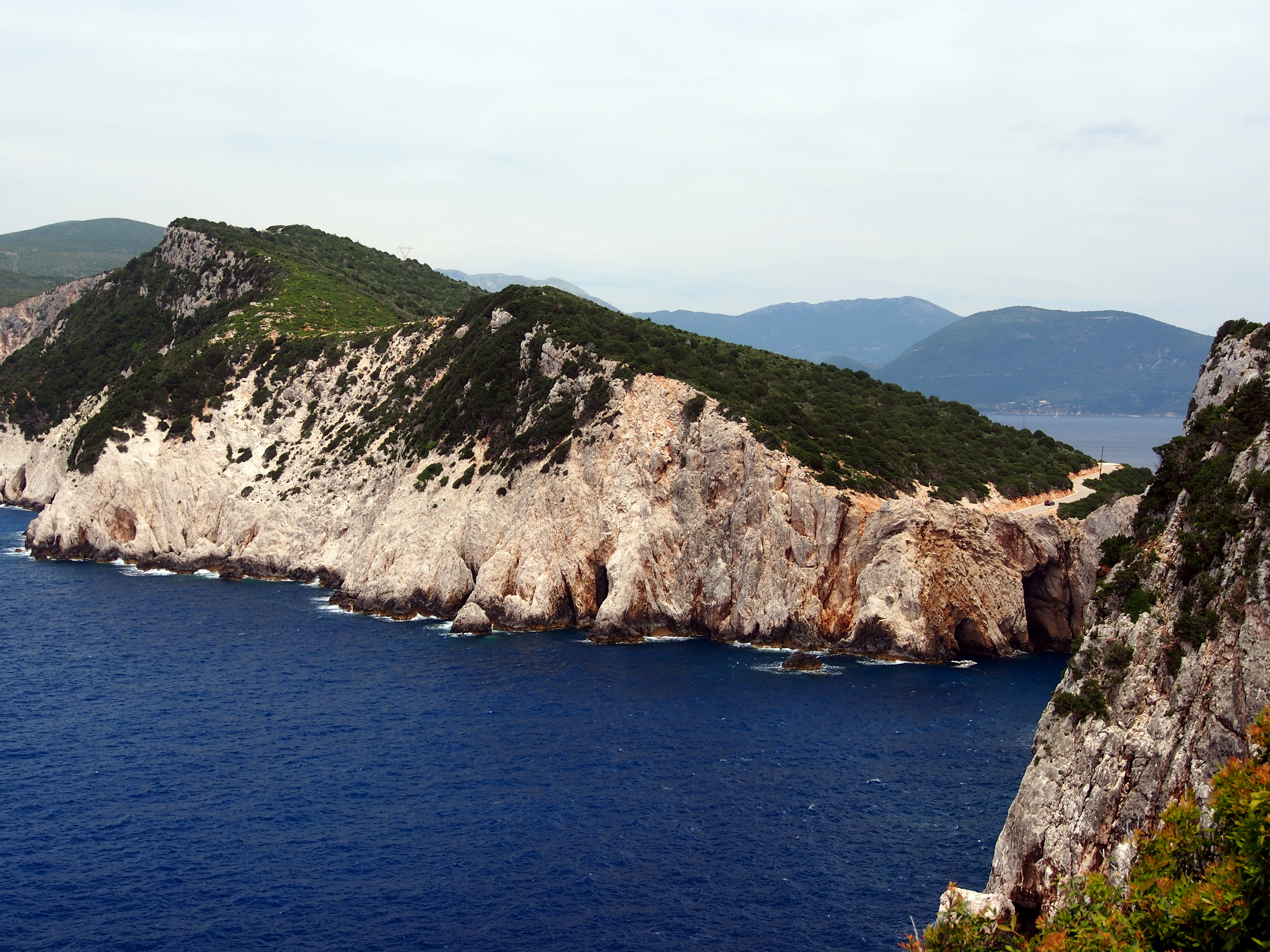 Photographed on Lefkada, Greece.